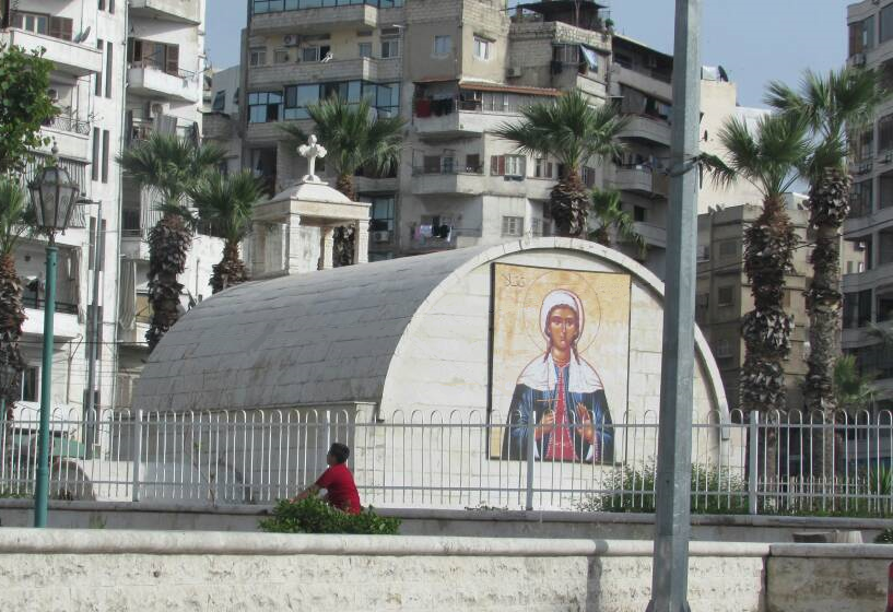 Photograph of the St. Taqla (Thecla) Shrine in Latakia, Syria, located in the Martaqla street.